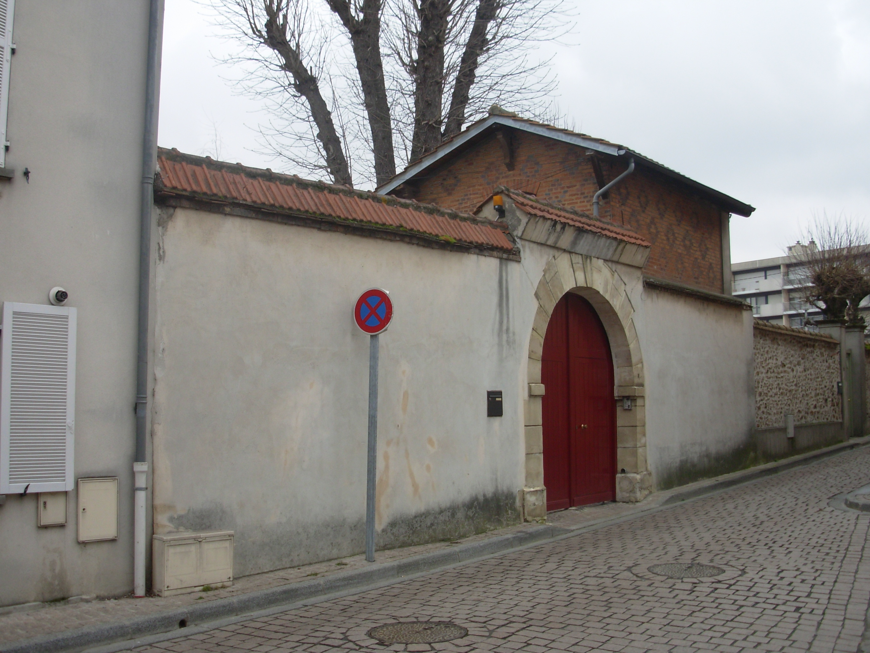 Crosne. The house where Boileau grew up